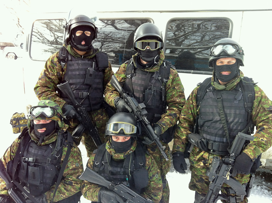 russian special forces